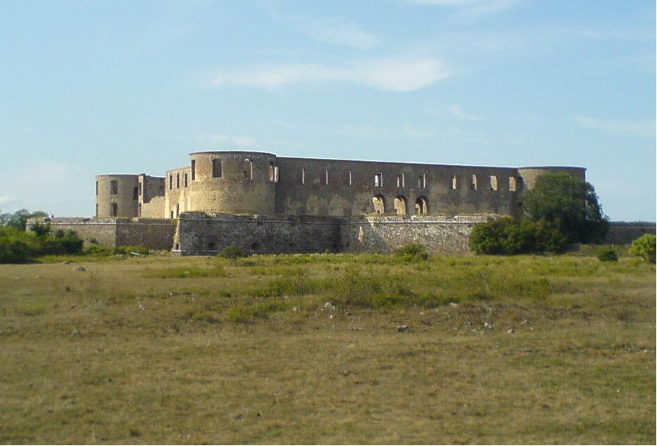 Borgholm Castle